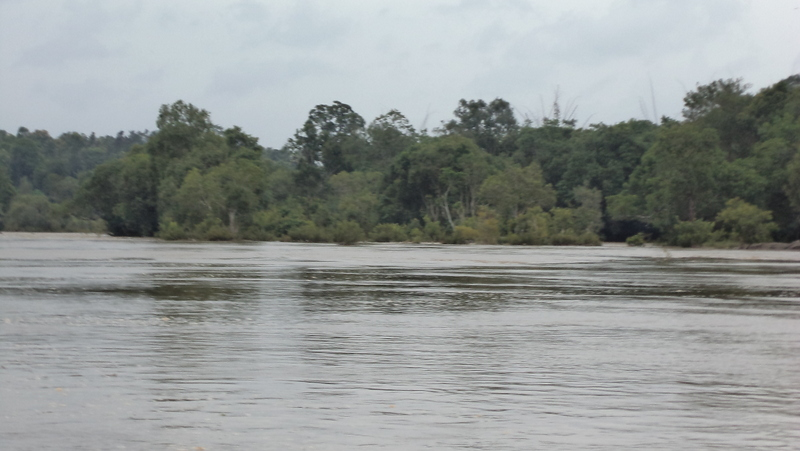 Kaveri river